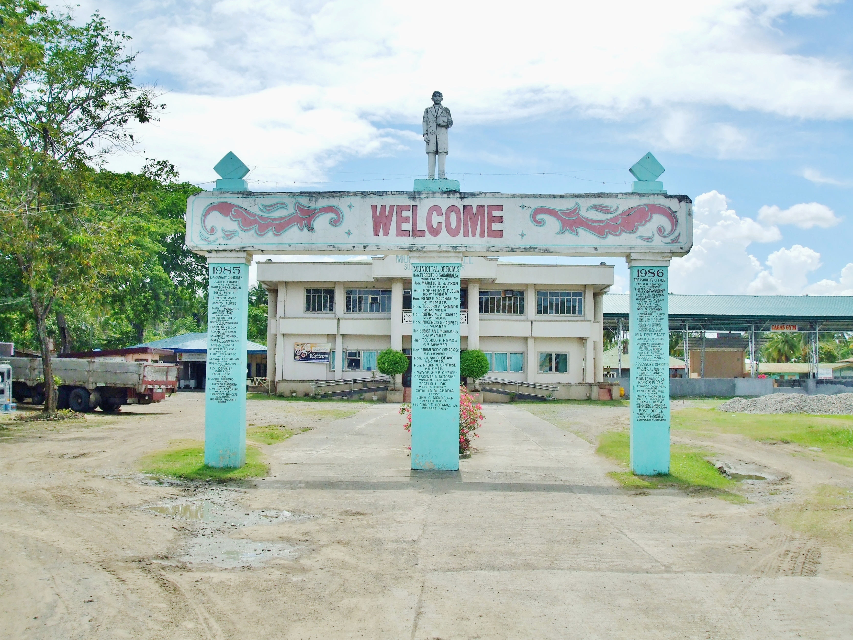 Entrance to Sulop Municipal Hall